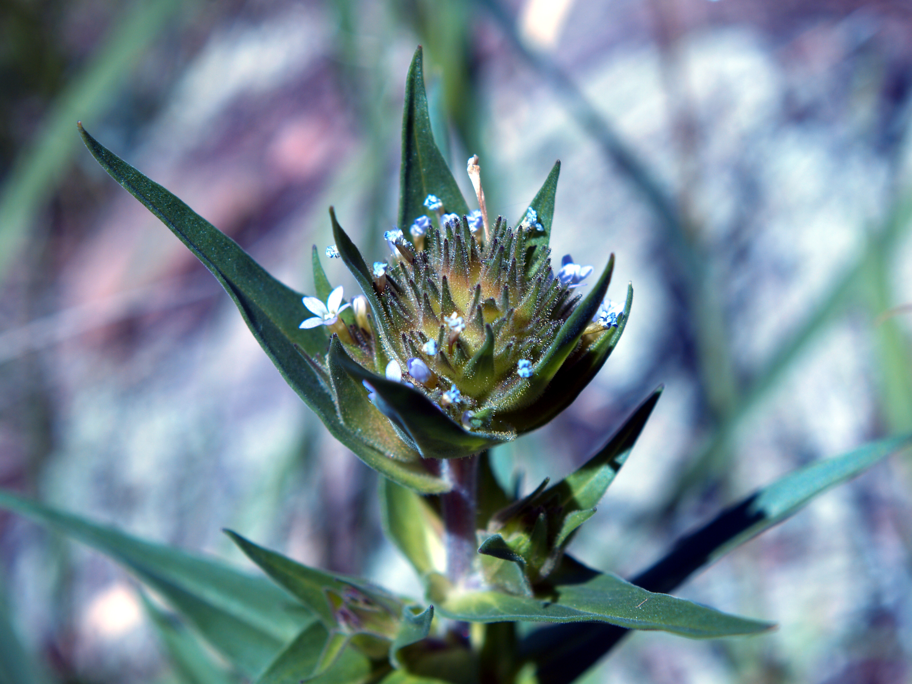 Collomia linearis at Wind Cave National Park, South Dakota, USA